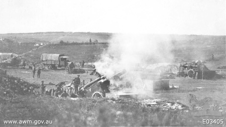 A 9.2 inch Howitzer in action near Hargicourt, in support of the Infantry operating in the Le Catelet Nauroy line. Note the other guns and vehicles in the background. NOTE : This version of the photograph has brightness and contrast artificially increased to highlight details.